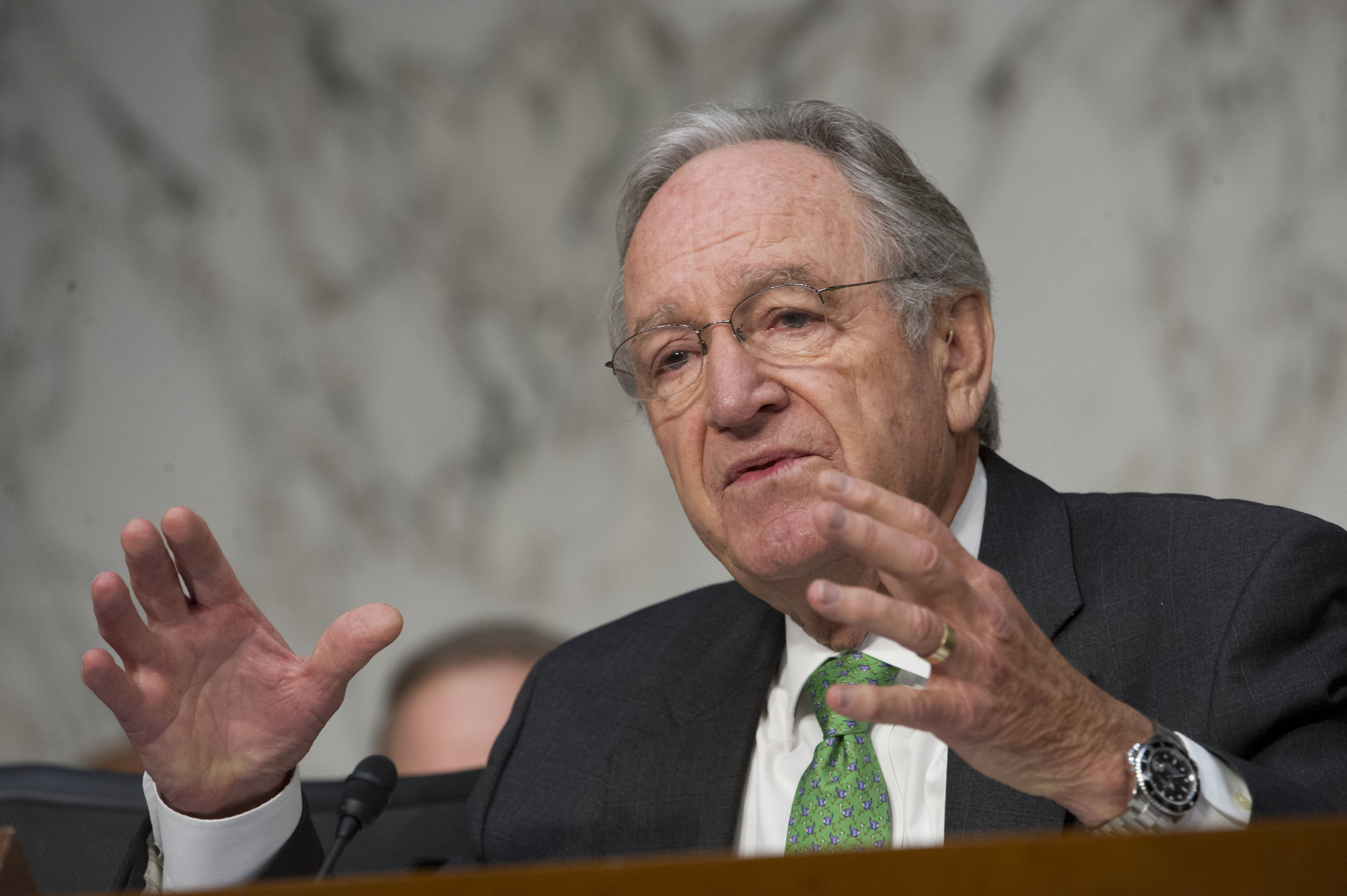 Senator Tom Harkin, a member of the Senate Committee on Appropriations, asks Deputy Secretary Ashton Carter a question during his testimony on sequestration at the Hart Senate Office Building in Washington D.C., Feb. 14, 2013. (DoD photo by Erin A. Kirk-Cuomo) (Released)